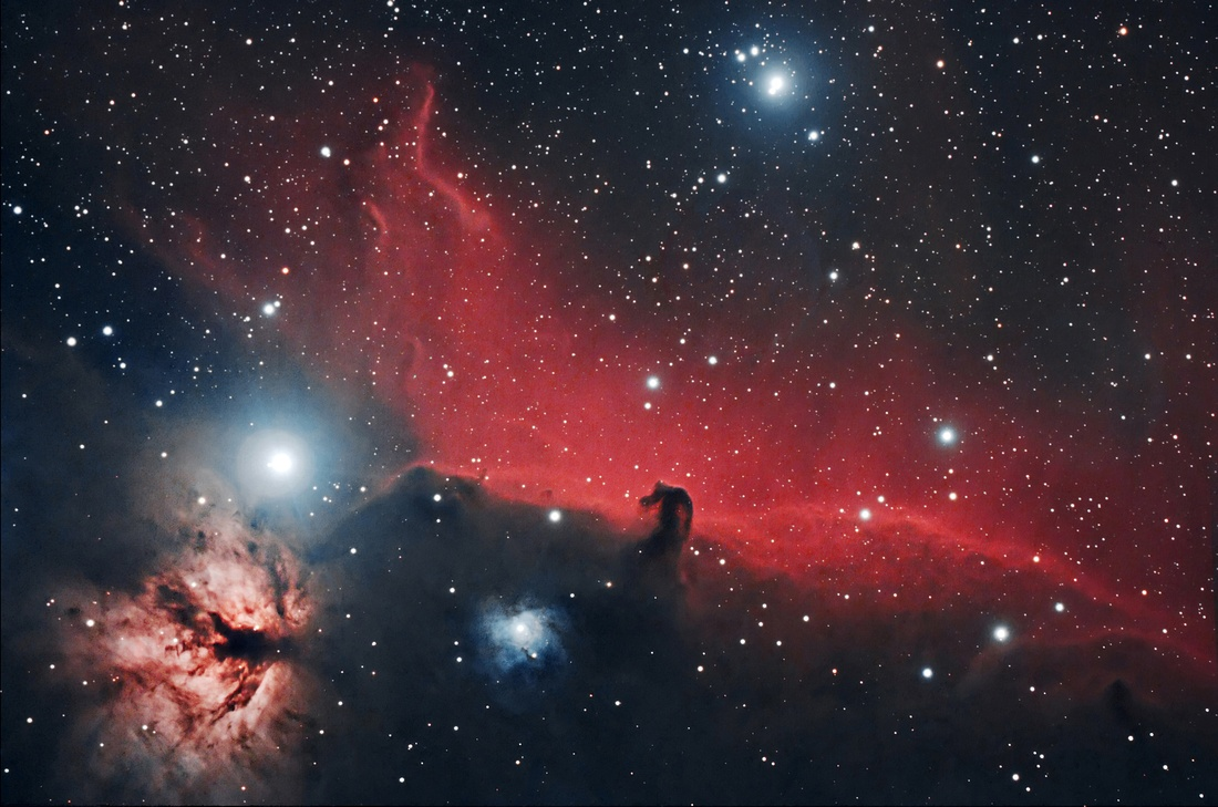 Region of the Horsehead Nebula south of star Alnitak in Orion.